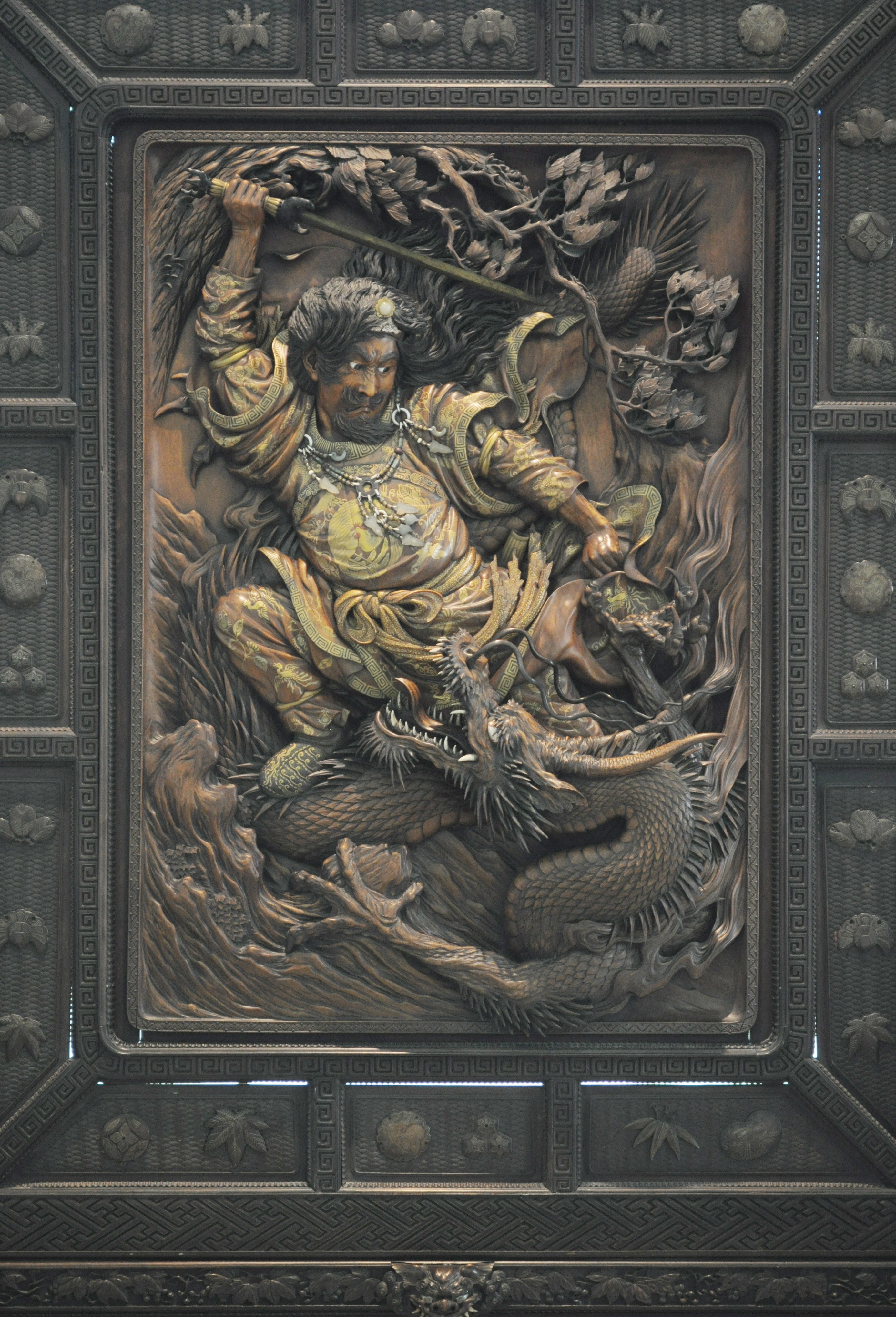 Standing screen depicting Susano-O no Mikoto cutting the tail of a dragon for a sword, Japan, Meiji period, Crow Collection of Asian Art, Dallas, Texas, United States.